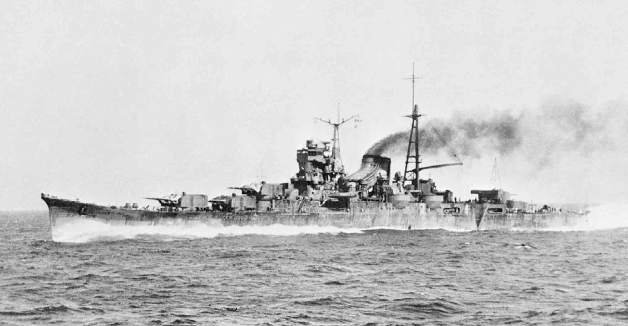 Imperial japanese navy Light cruiser Mogami (Heavy cruiser later). Mogami as completed, running trials off Sukumo Bay at 36 kts. full speed, 20 March 1935. Her welded hull suffered serious damage during these trials. Catapult is not installed yet.